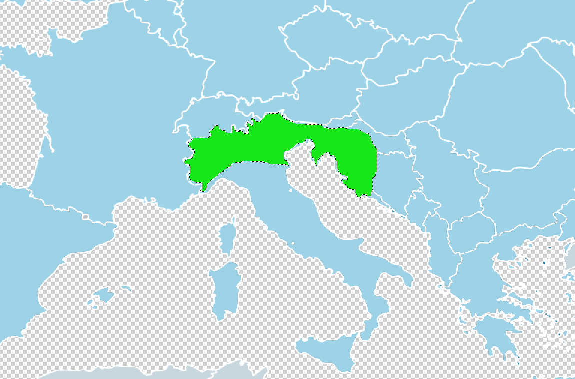 Area salmo marmoratus